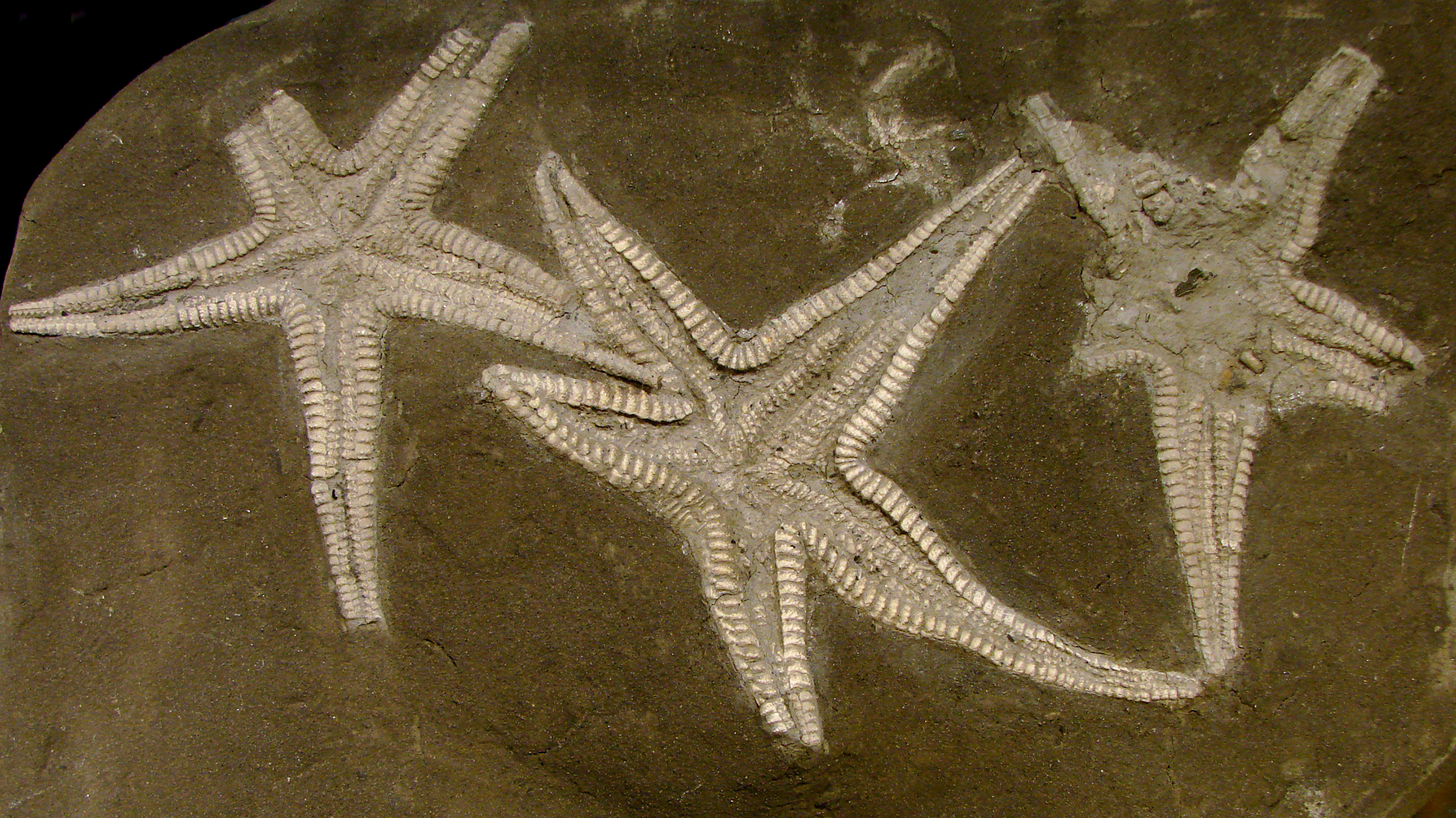 Astropecten lorioli Wright, Tithonian, provenance: Boulonnais.